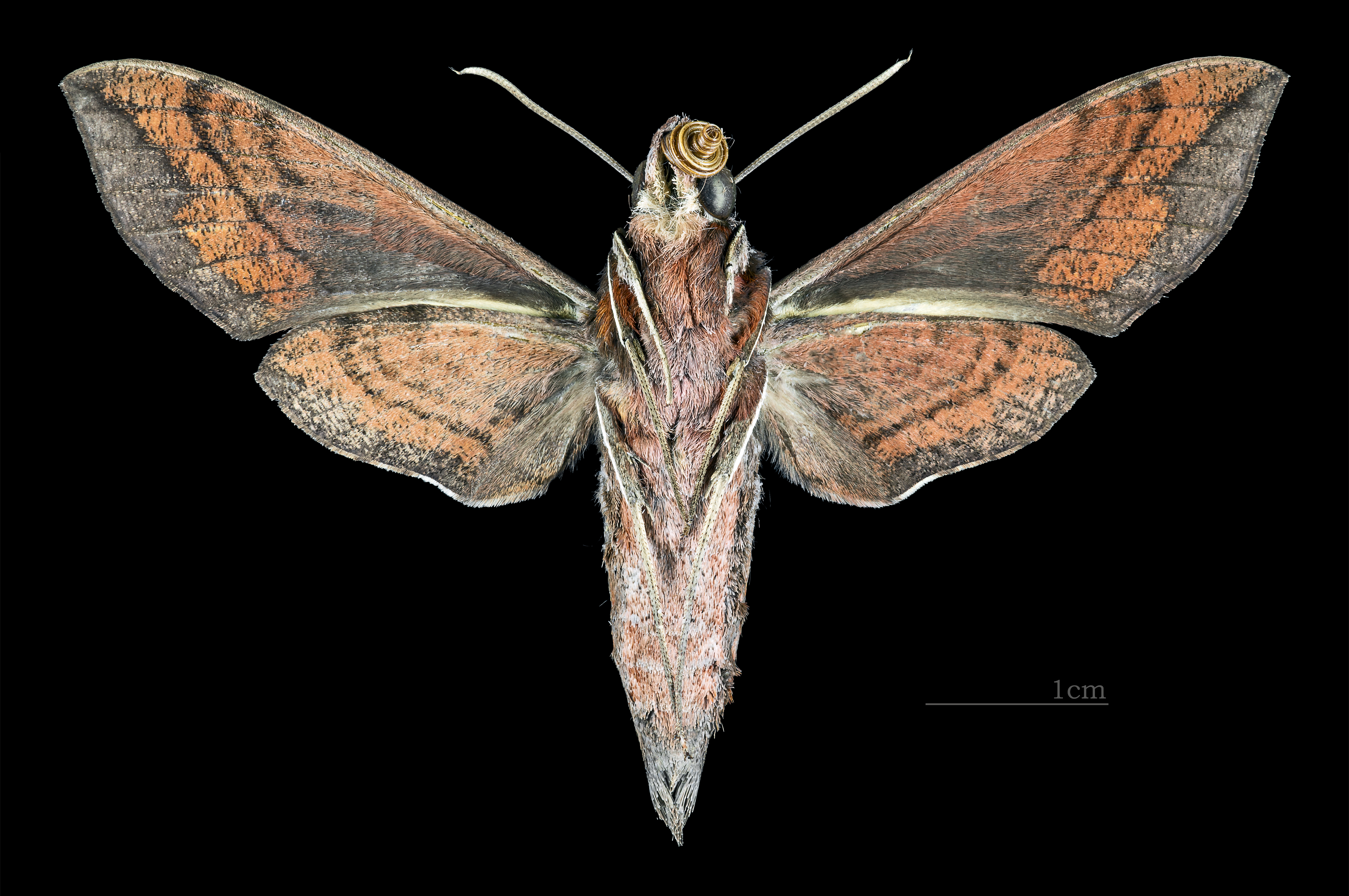 Hippotion brunnea - △ Ventral side Collection of the Mathematician Laurent Schwartz